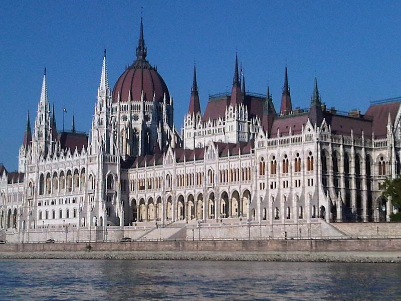 Parliament of Hungary from across the Danube, in Budapest.